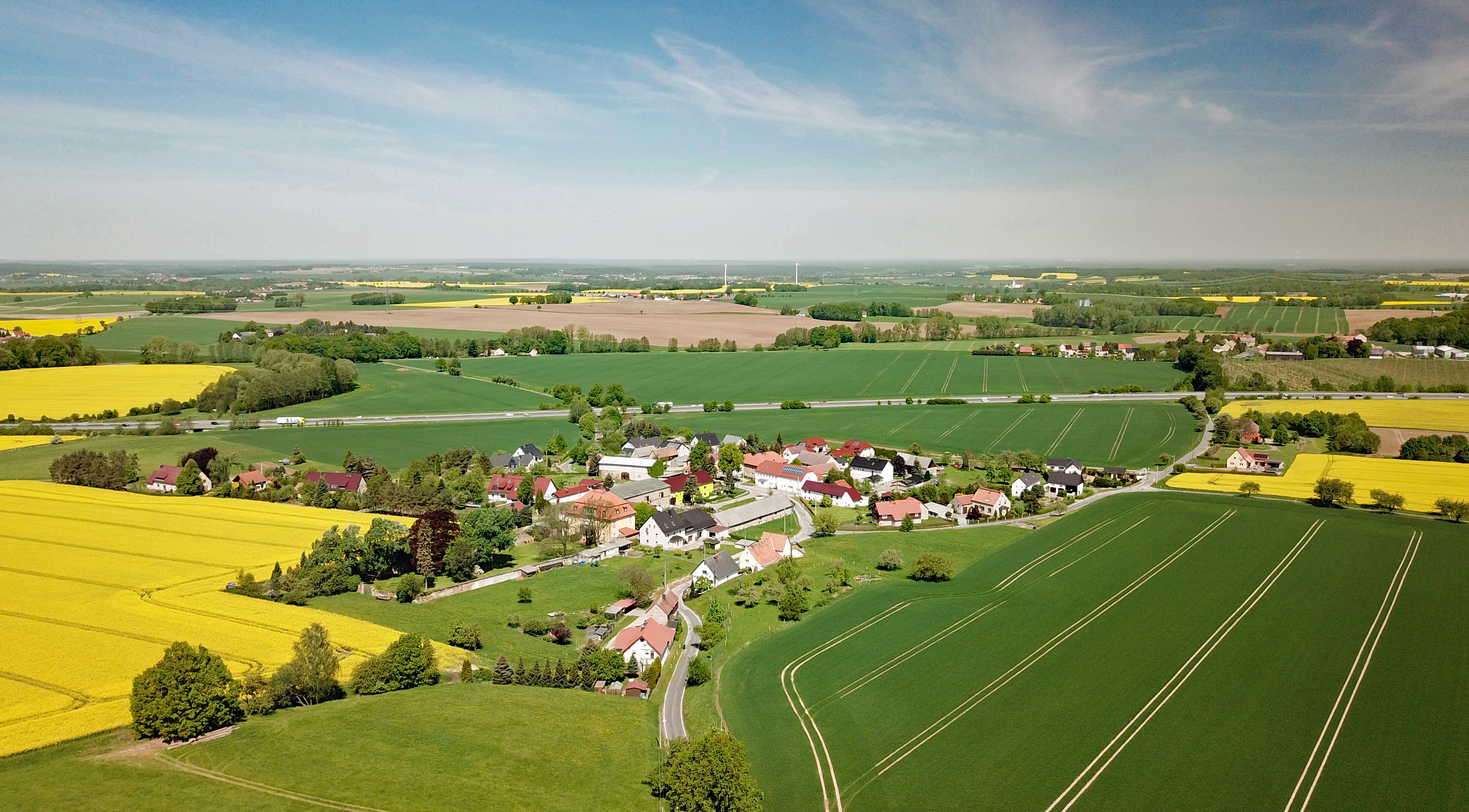 Pannewitz (Burkau, Saxony, Germany) Hornjoserbsce: Powětrowy wobraz Panec